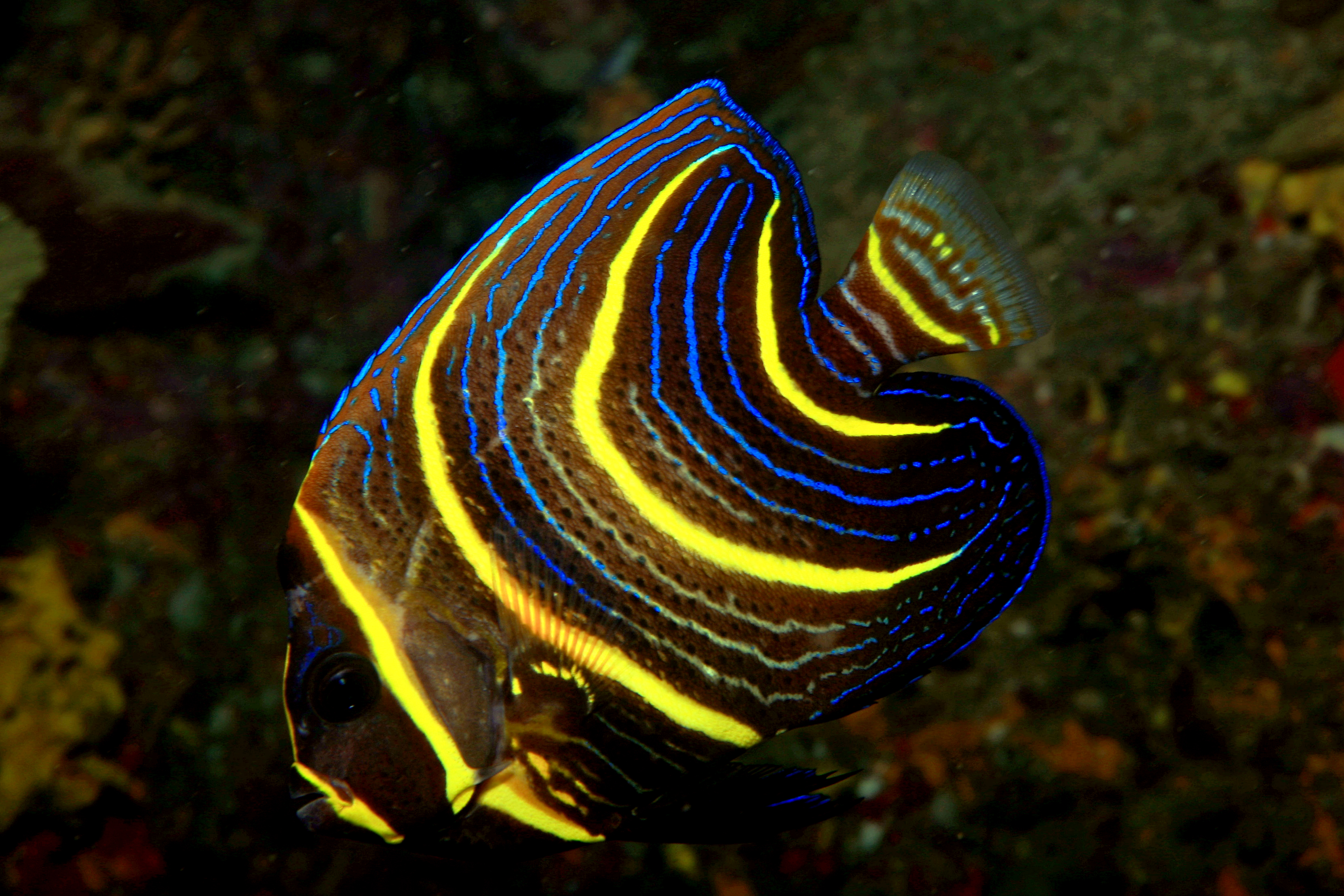 A juvenile Cortez Angelfish (Pomacanthus zonipectus) shows off for the lens at Pirámides III (Pyramids III) dive site, Panama.